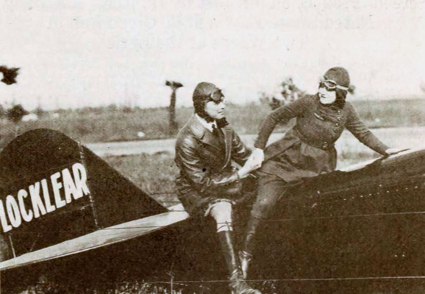 Pilot Ormer Locklear showing actress Viola Dana how he crawled back along the tail of his aircraft to perform midair feats, on page 51 of the August 21, 1920 Exhibitors Herald.